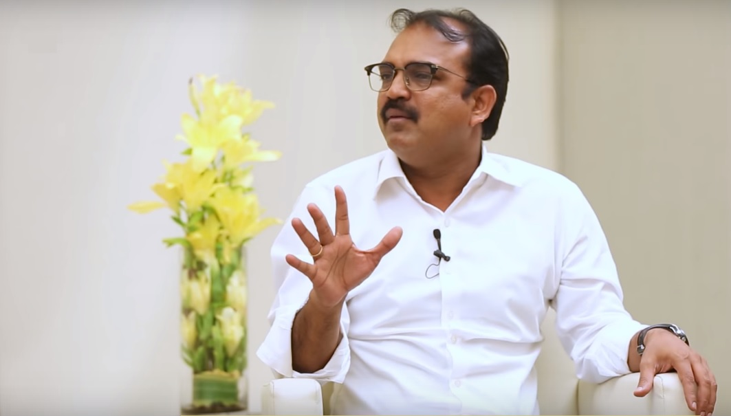 Indian filmmaker Koratala Siva in an interview with Film Companion South in April 2018